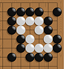 A game position of go. The two eyes.